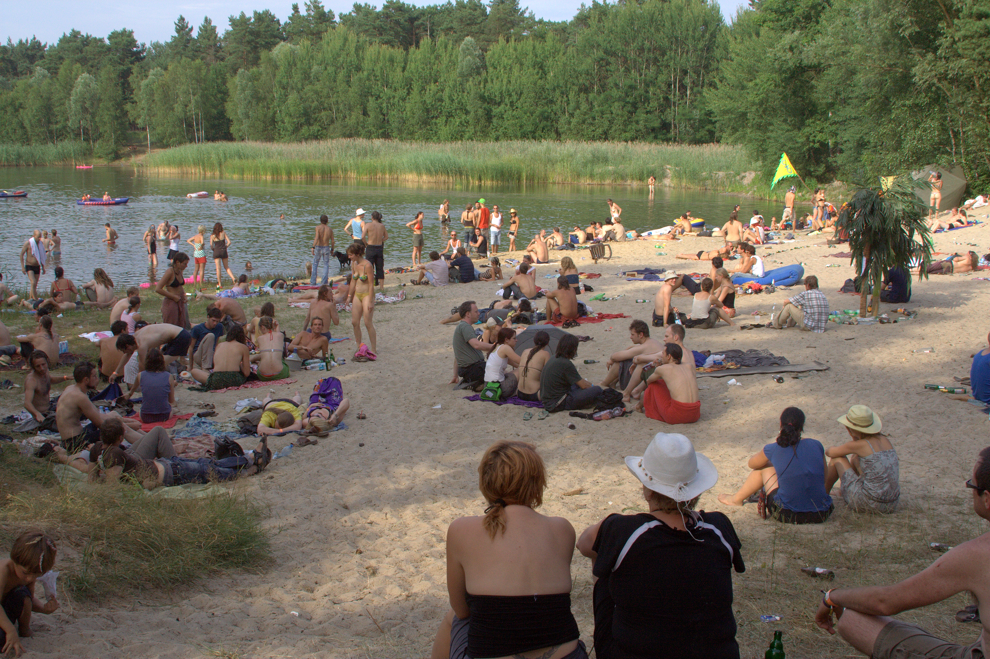 At the Nation of Gondwana Open Air 23.07.2006.